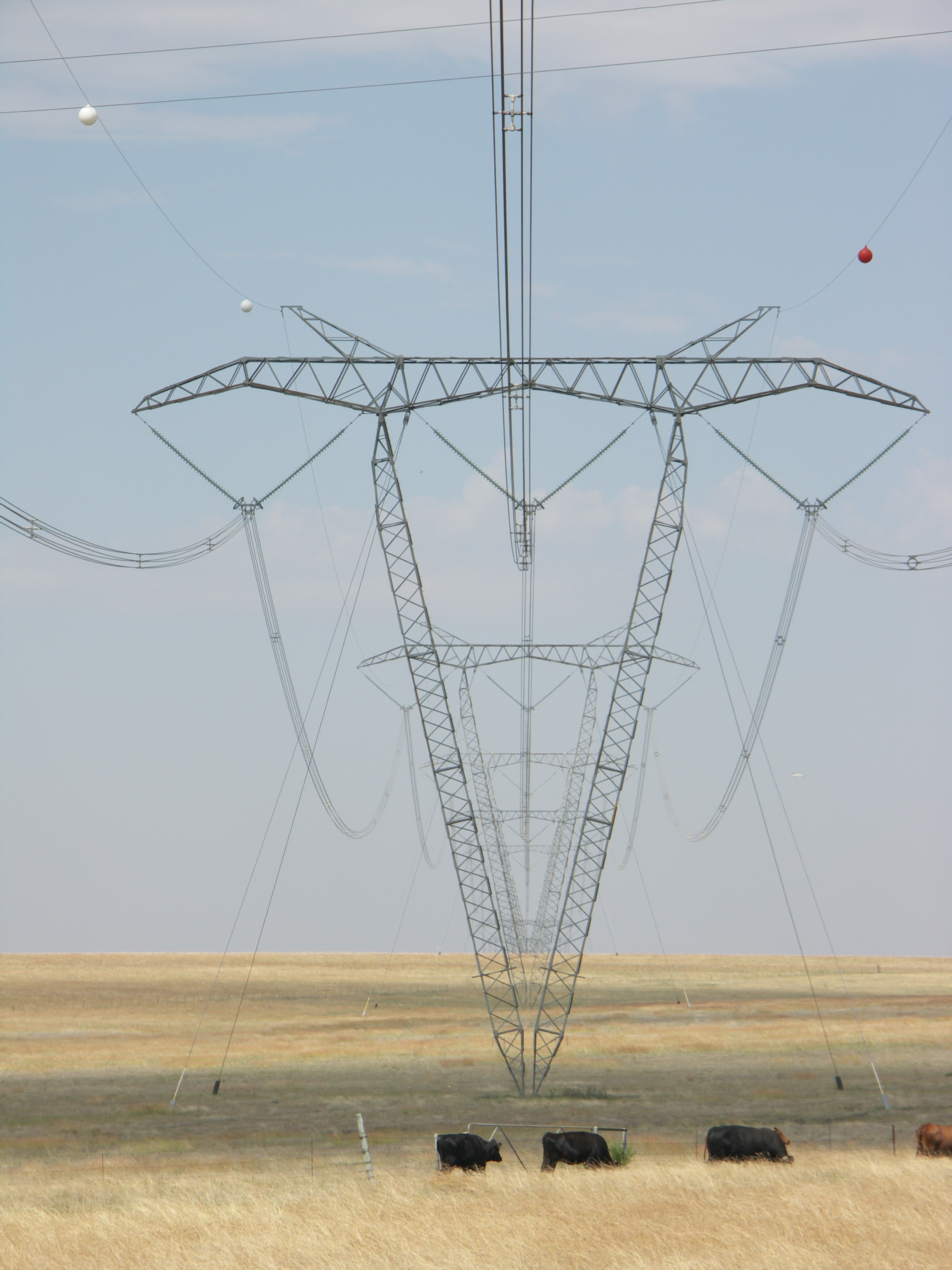 Guyed electricity pylon of the Tutuka–Beta single-circuit 765 kV power line in Matjhabeng Local Municipality, in the Free State, South Africa